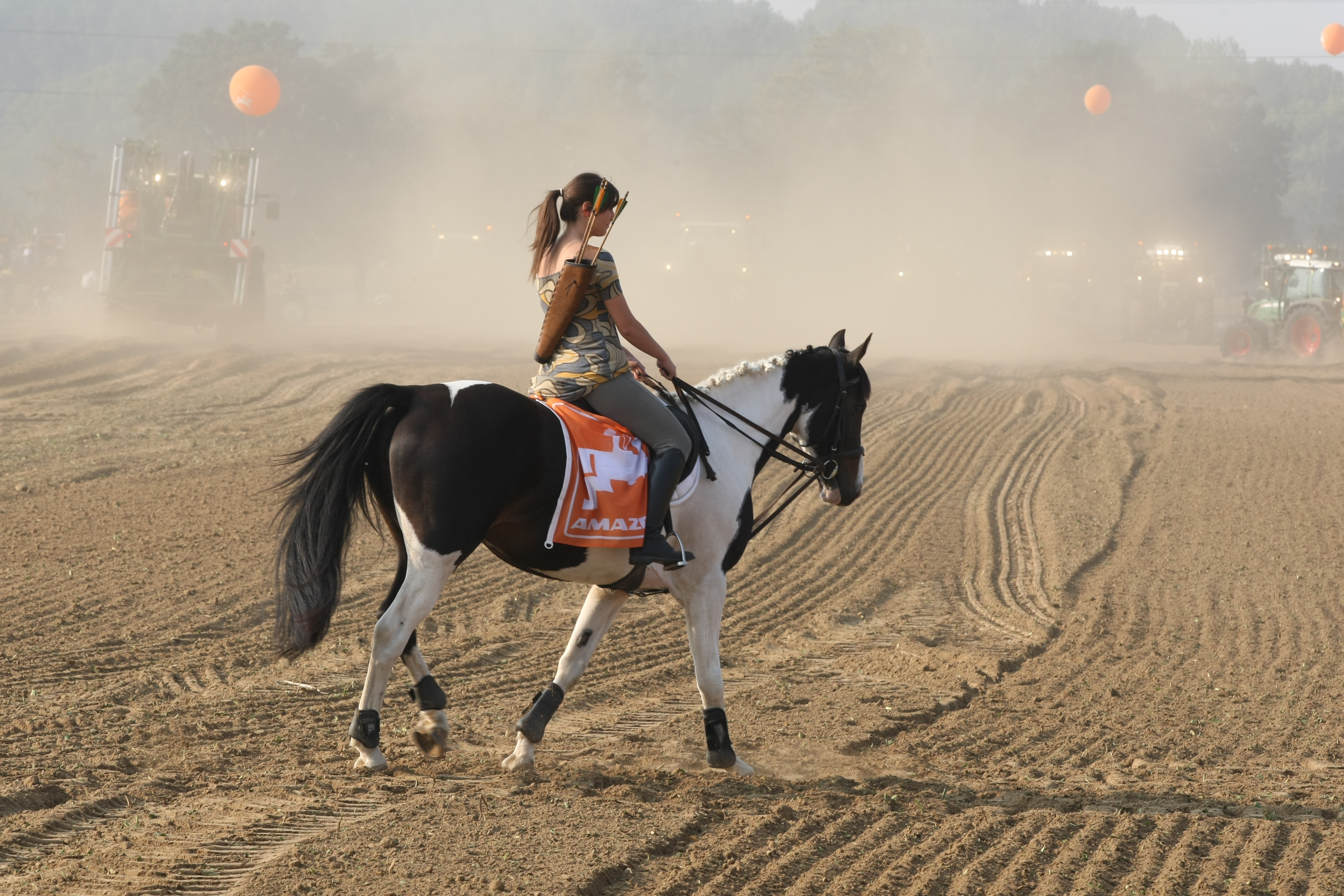 Amazone "ad horse" at Werktuigendagen 2009